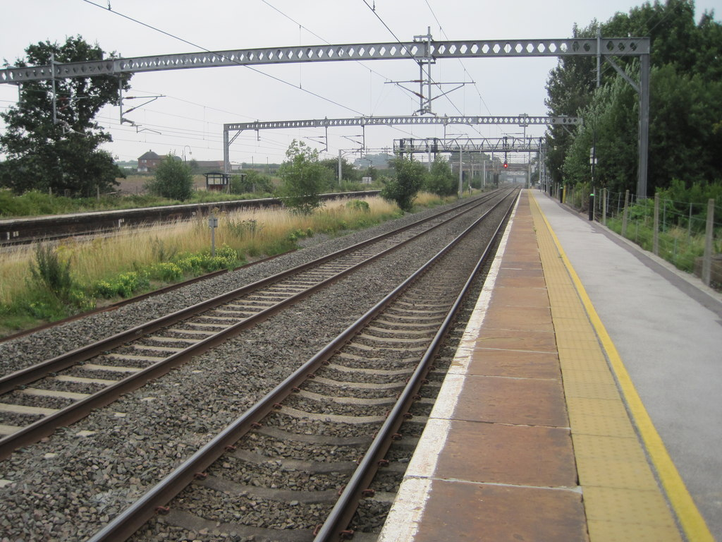 Polesworth station: Opened in 1847 by the London & North Western Railway on the line from Rugby to Stafford, this station was reduced to just one northbound service per day when this image was taken. View south east towards Atherstone and Rugby. There was no access to the southbound platform (left) which was consequently overgrown! A platform shelter can be seen in the undergrowth - which was actually the only shelter on the whole station.